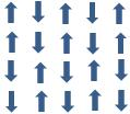 2D antiferromagnetic alternative structure